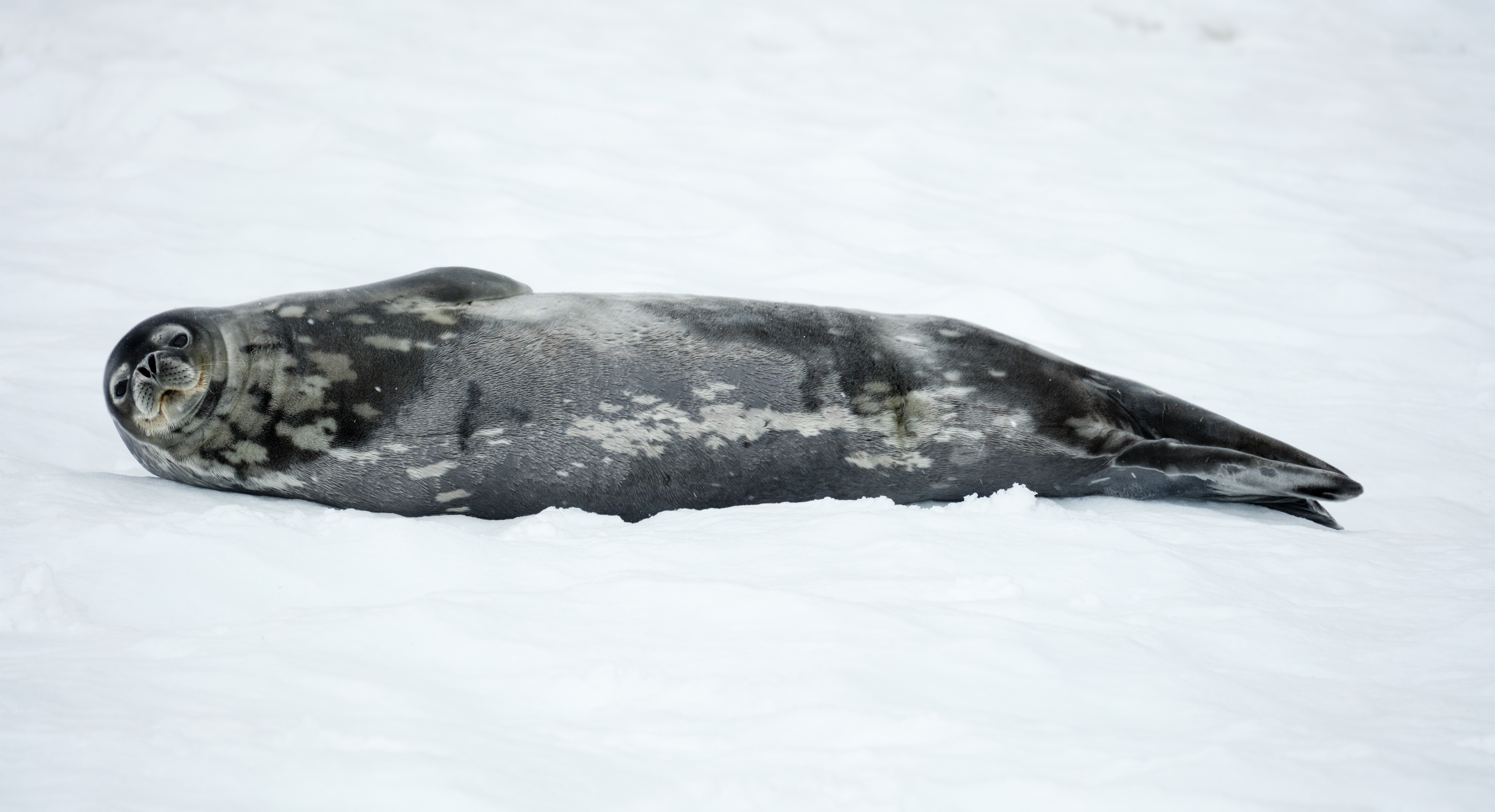 Weddell seal (Leptonychotes weddellii), D'Hainaut Island, Mikkelsen Harbour, Trinity Island